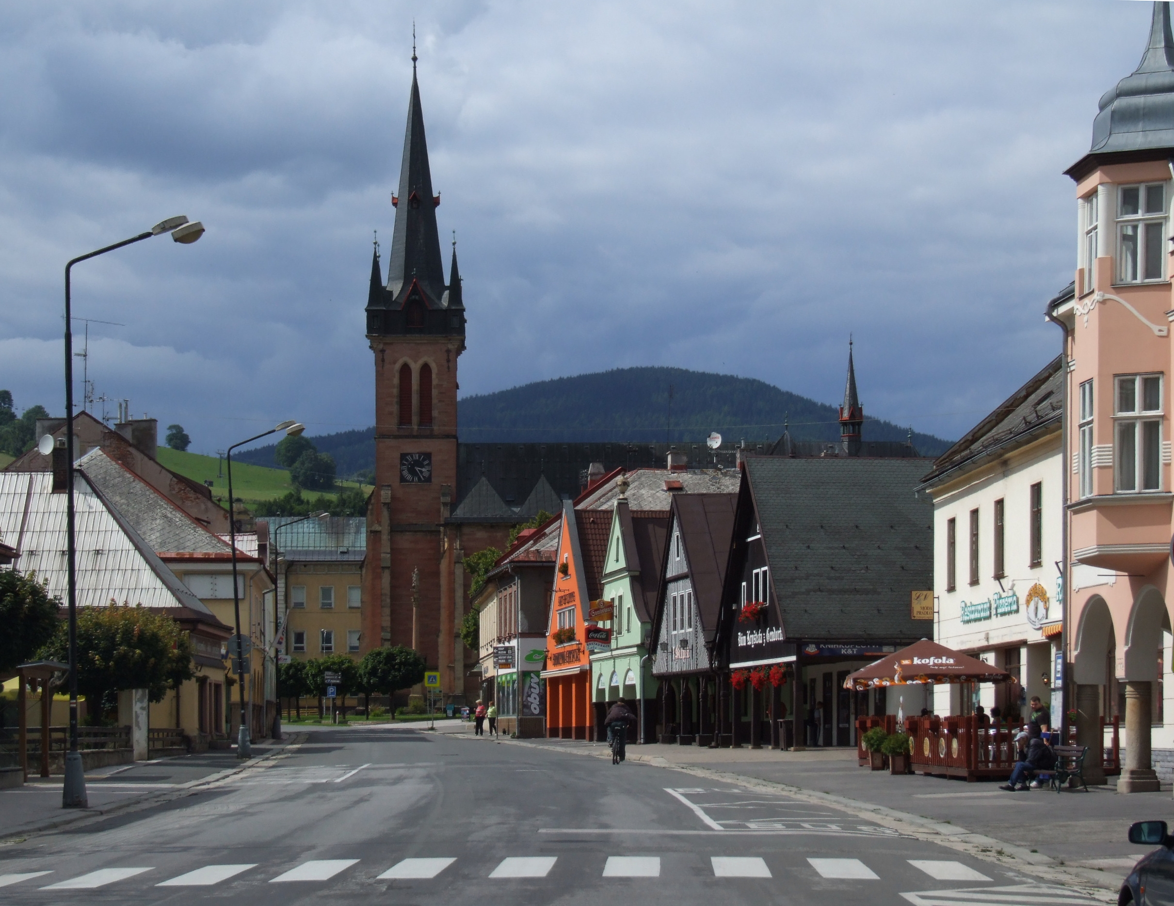 Vrchlabí, Krkonošská street